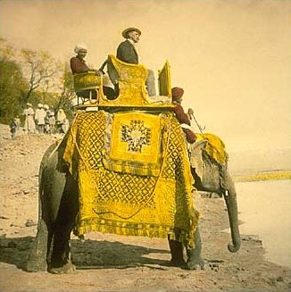 Going to the reception on the Maharajah's Elephant (Jackson's own caption) Magic lantern image from Kashmir